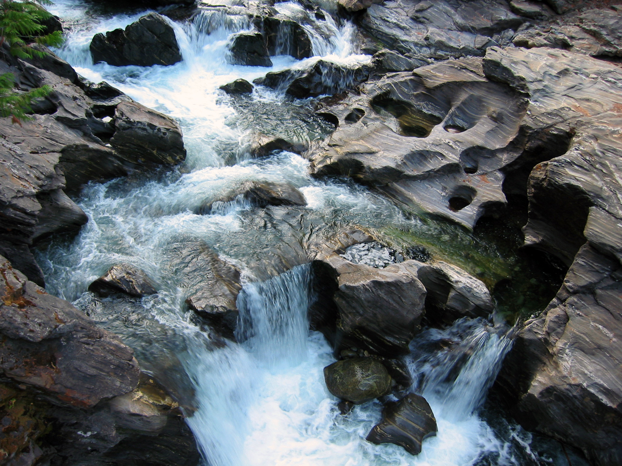 Cascades on upper Icicle Creek, Washington, USA.